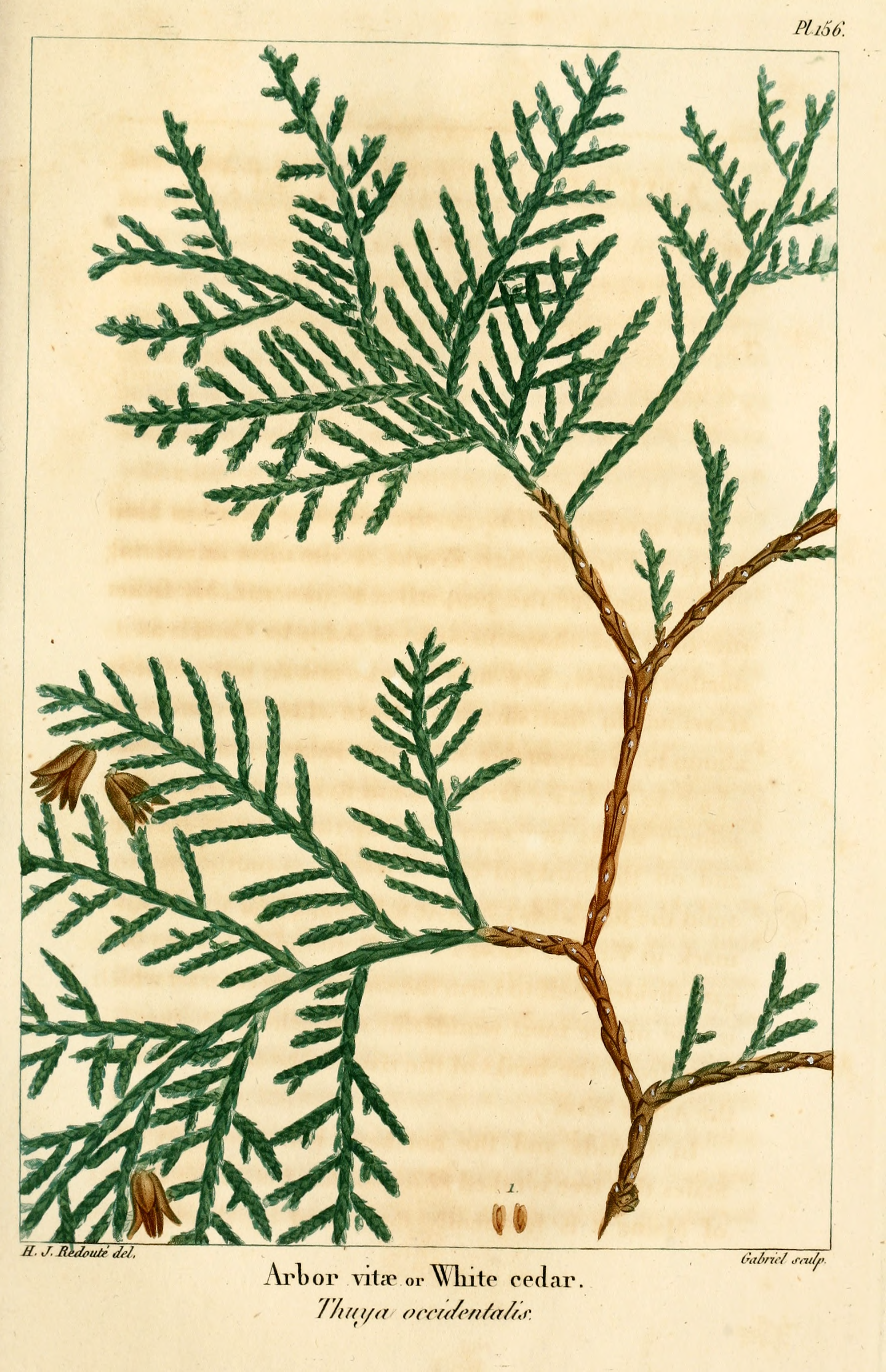 Plate 156 from The North American Sylva: Thuja occidentalis. Original caption: Arbor vitæ or White cedar. Thuya occidentalis.)